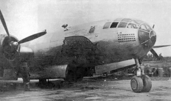 Photo of "Kickapoo II" B-29 42-6232 of the 468th Bomb Wing, Kharagpur, India (World War II) Source: United States Air FOrce, United States Air Force Historical Research Agency, Maxwell AFB, Alabama (468th Bomb Group USAAF Historical Records)